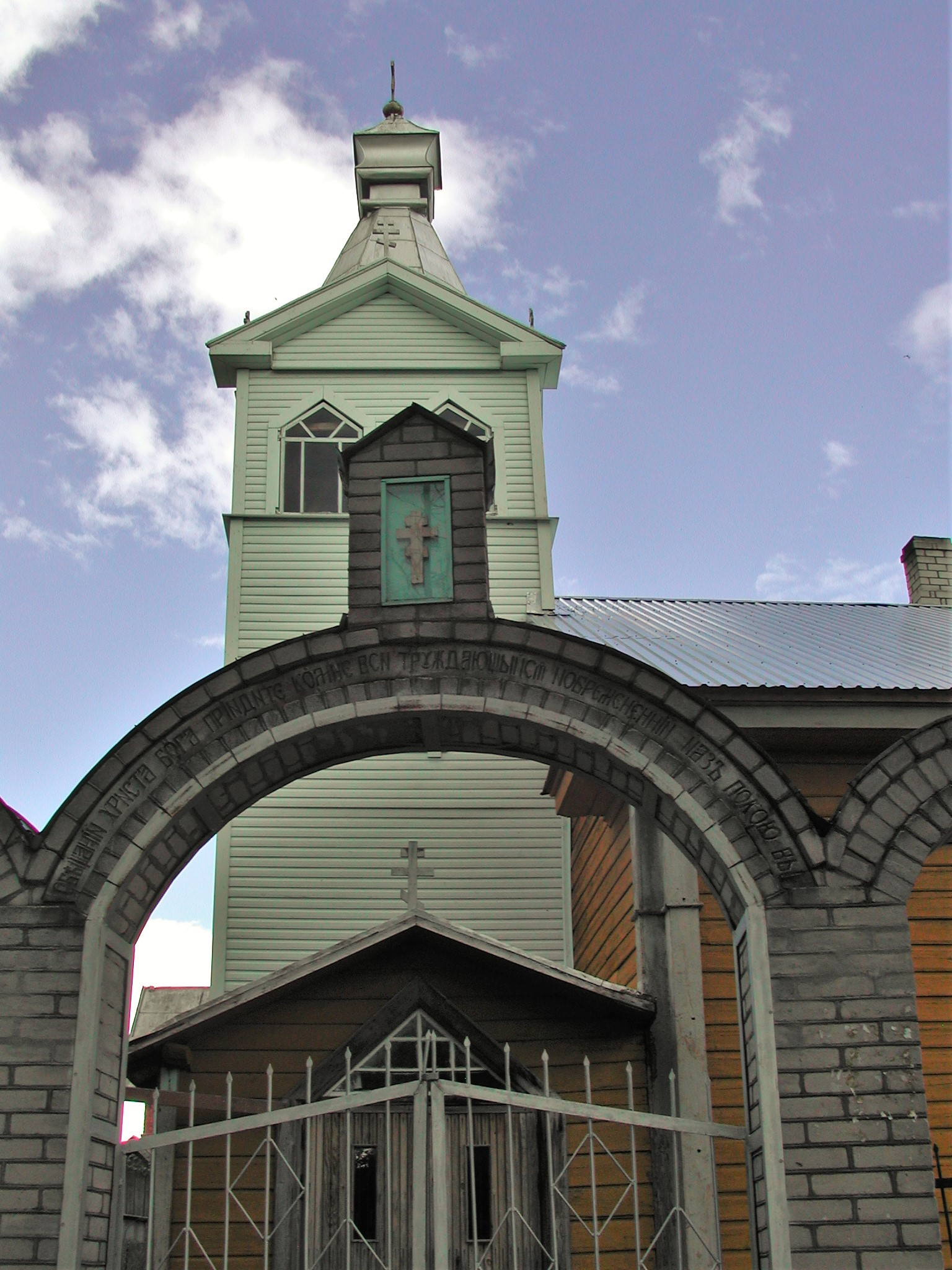 Church in Kallaste, Estonia